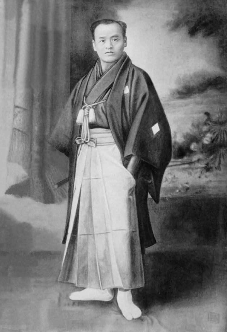 Takeda Sokaku, who is the founder of Daitō-ryū aiki-jūjutsu.